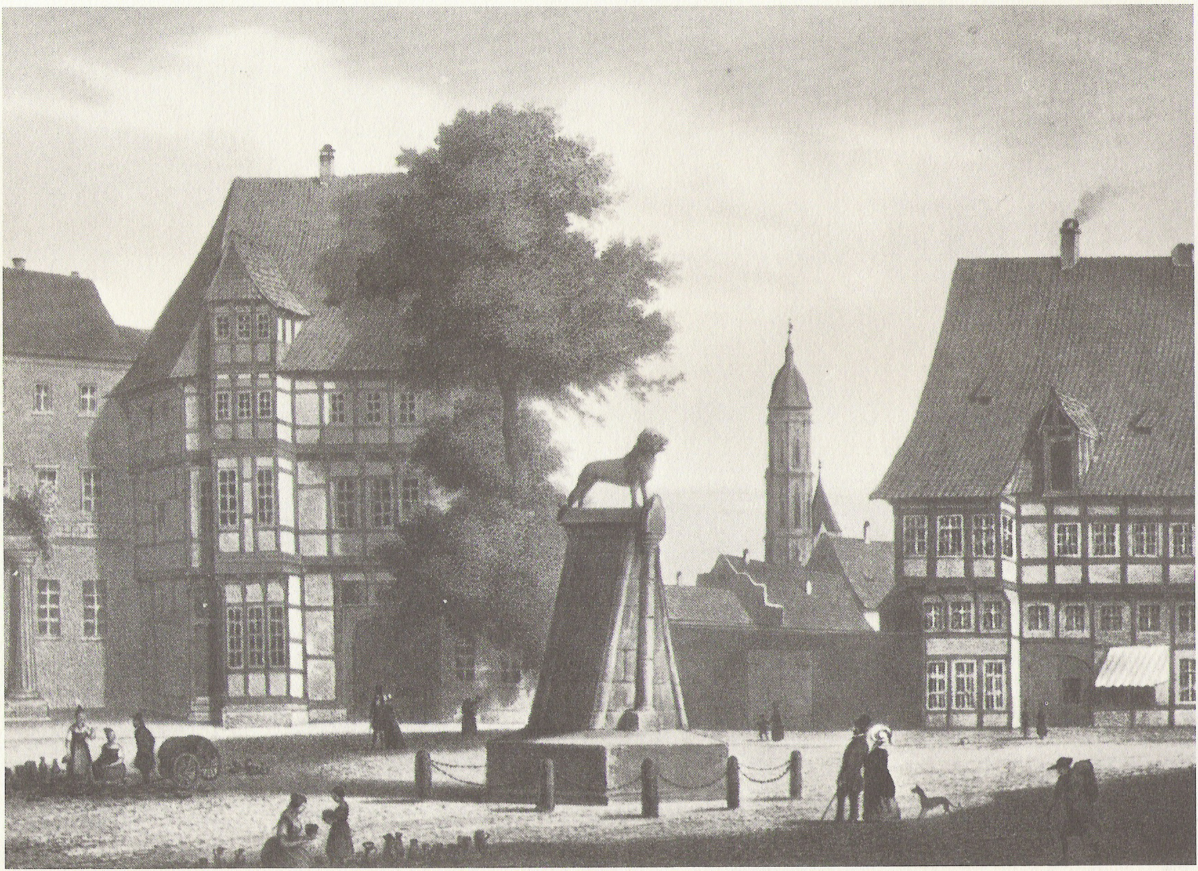 Lithography of the castle square in Braunschweig